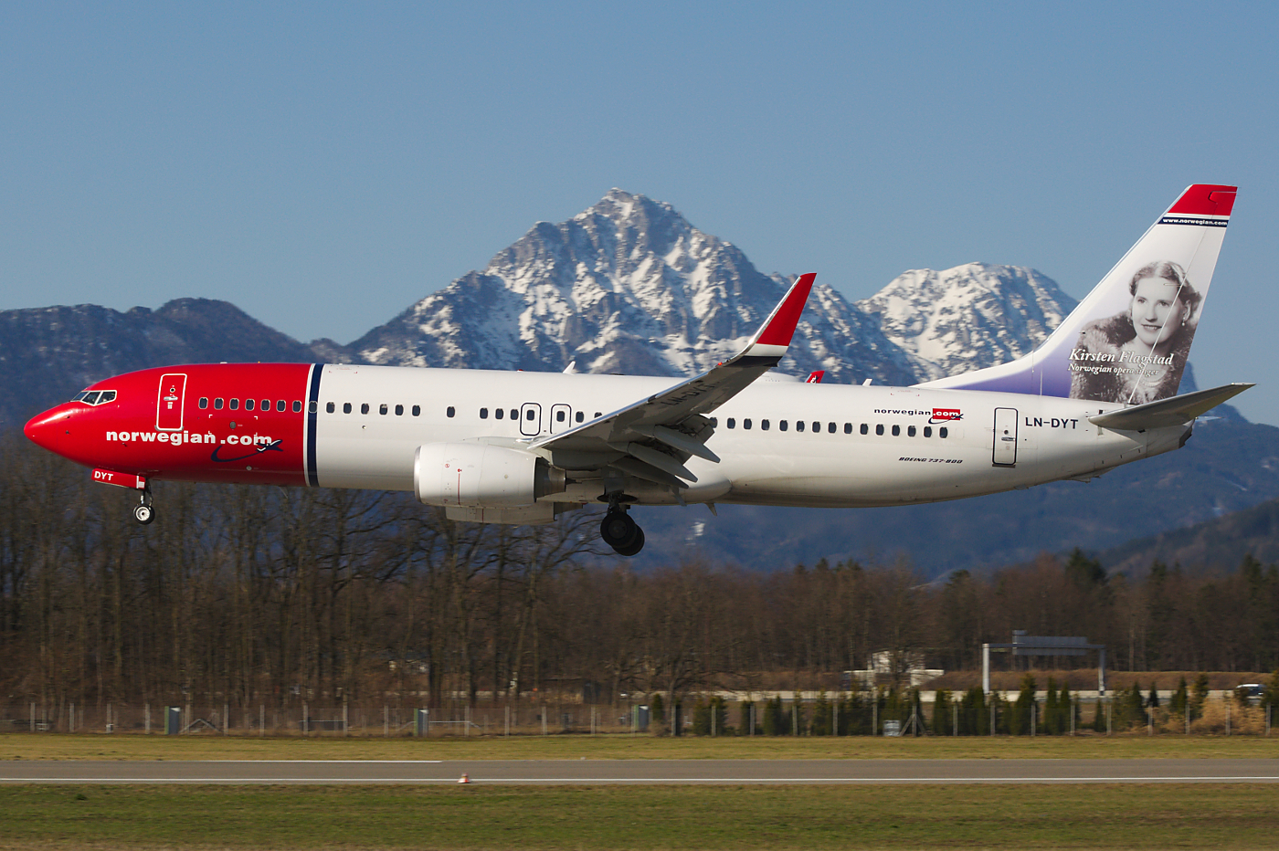 Norwegian Air Shuttle landing in Salzburg